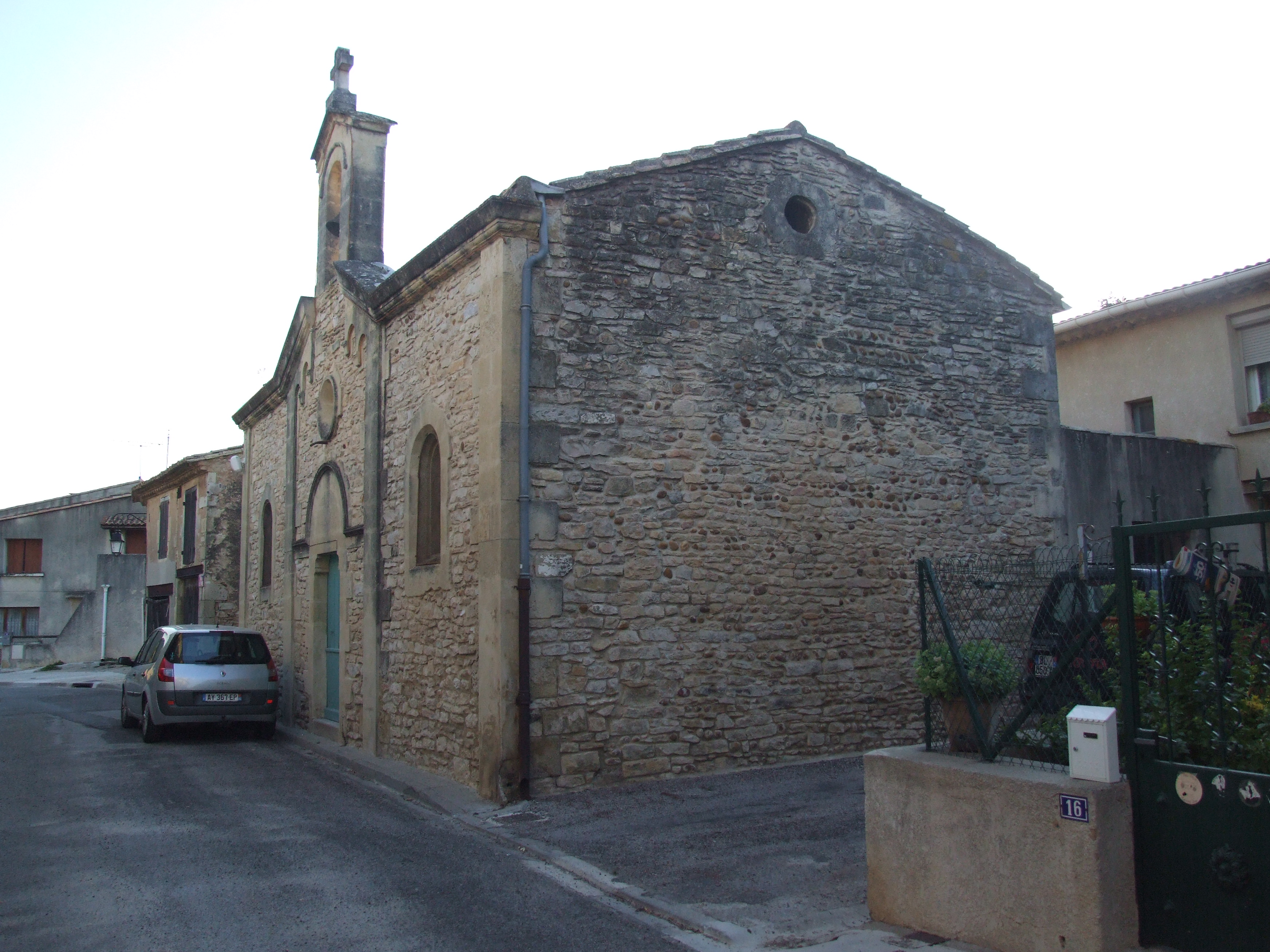 AAubord is a commune, situated on the D14 in the Petit Camargues, in the departement of Gard in the region Languedoc-Roussillon in southern France. Its post code is F30620 and INSEE 30020. Église